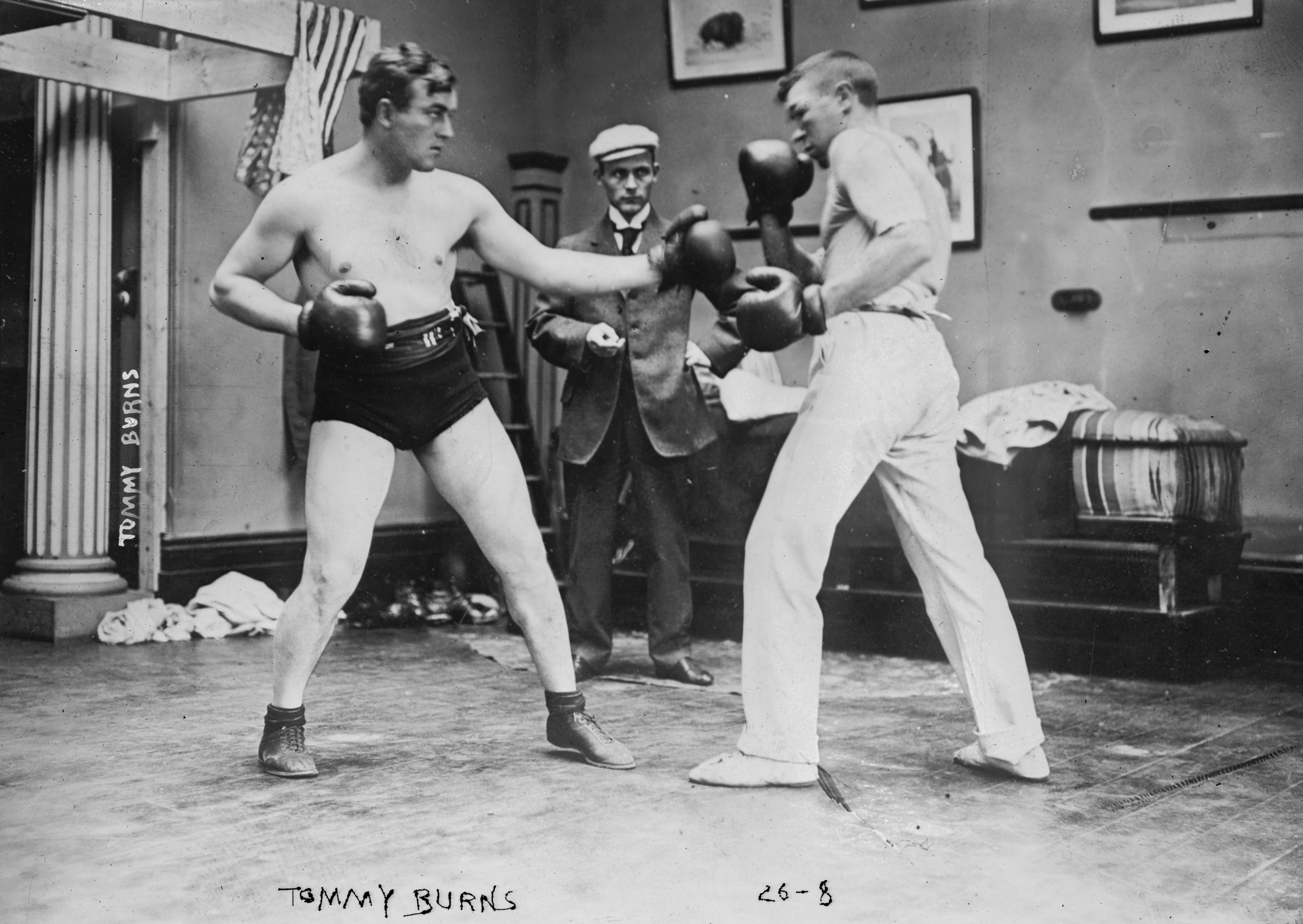 Tommy Burns, a Canadian boxer